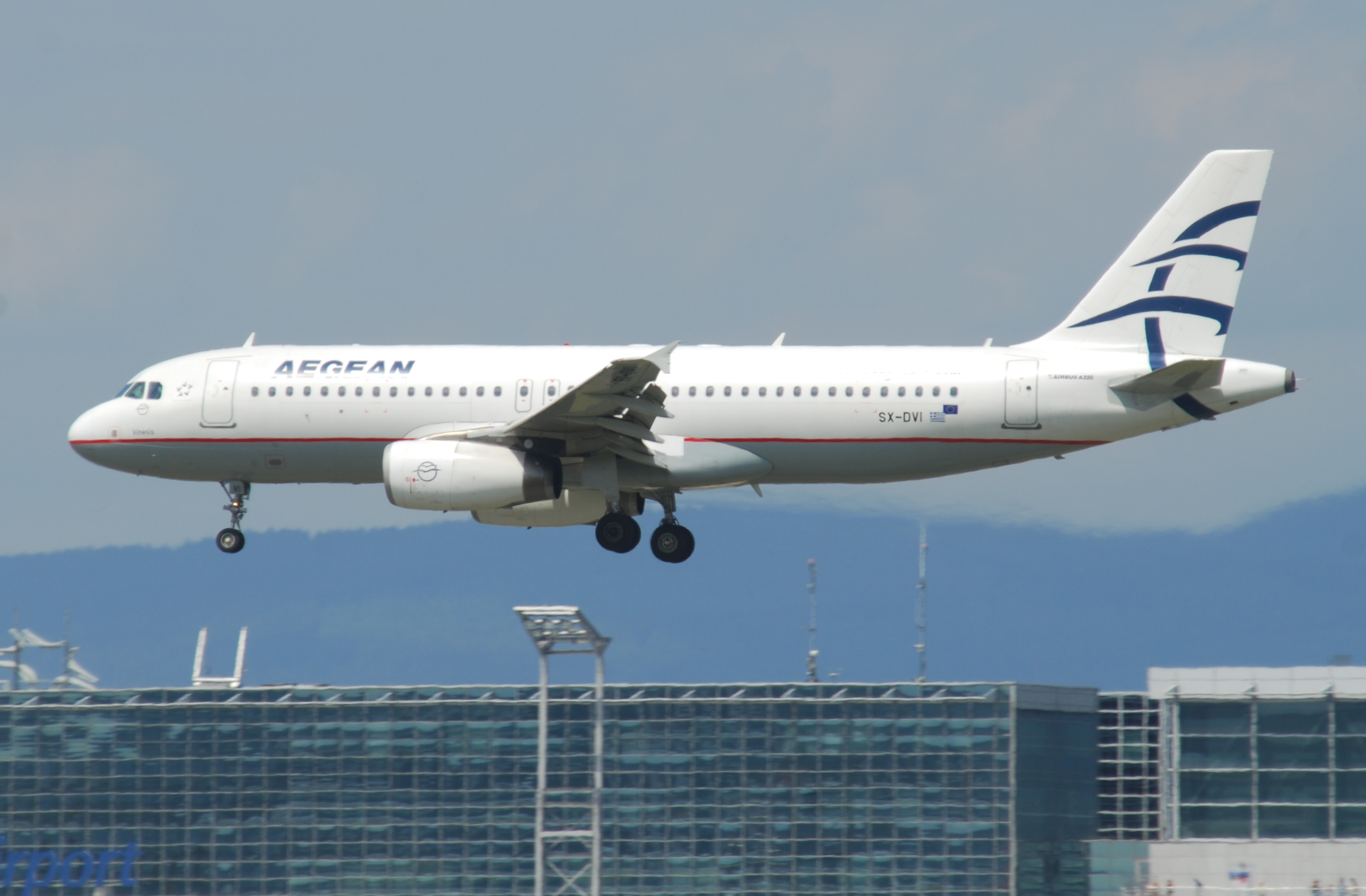 Aegean Airlines Airbus A320-232; SX-DVI@FRA;06.07.2011/603ne